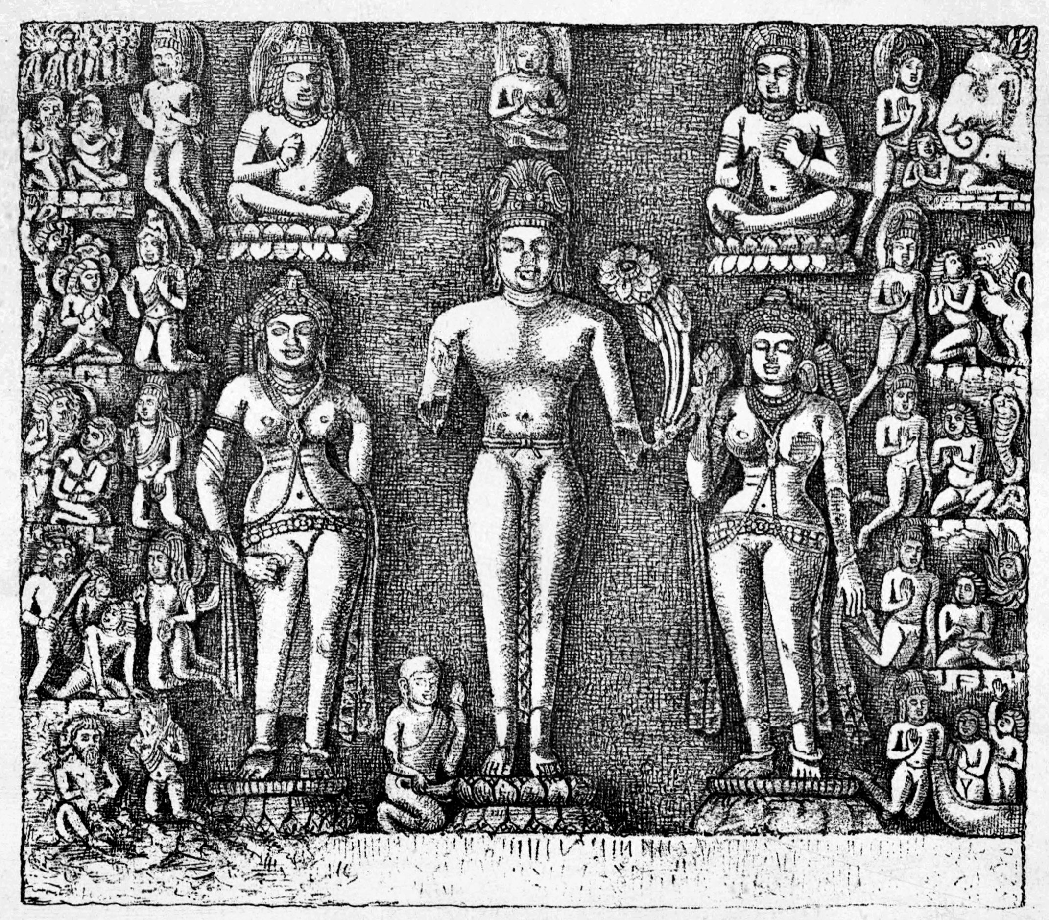 Kanheri caves sculpted Buddhist litany